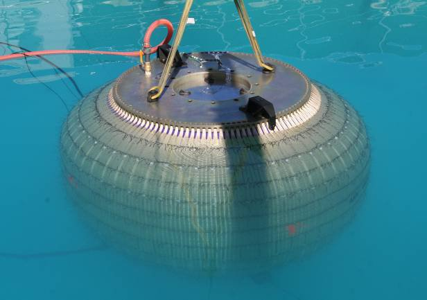 BEAM development unit undergoing burst testing in pool at the Bigelow Aerospace facility.